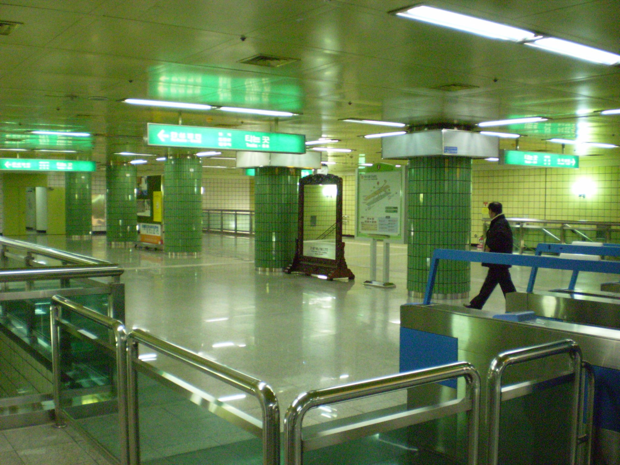 Interior of Yeungnam University Hospital subway station (Line 1) in Daegu, South Korea.